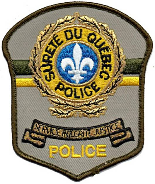 Picture taken by the uploader of a badge of Sûreté du Quebec - Canada